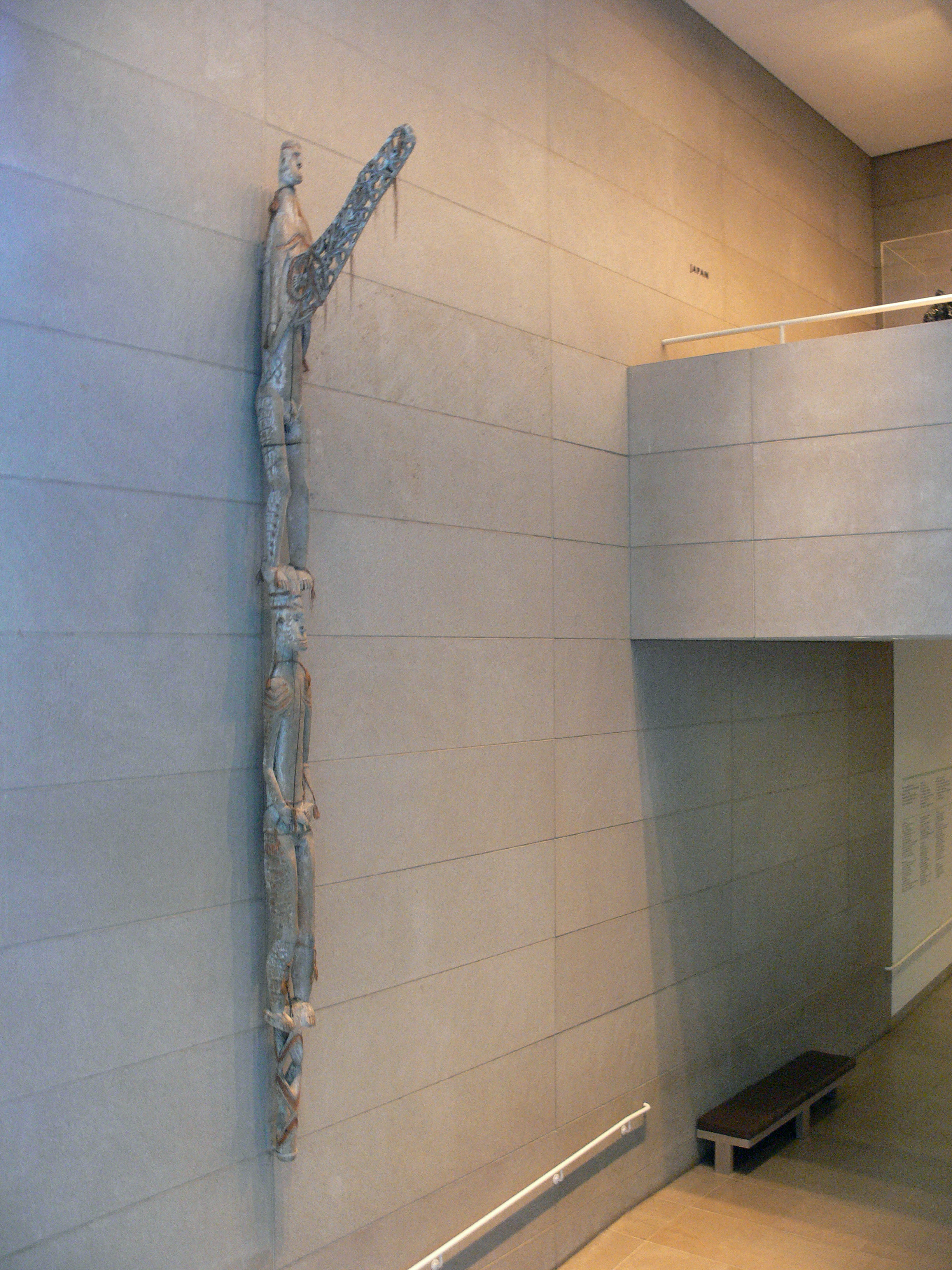 Ceremonila pole („mbis“); ancestor figures; Melanesia, Irian Jaya (Indonesian New Guinea), Asmar people, c. 1930-1940; Wood, paint and fiber Dallas Museum of Art, Dallas, Texas; The Roberta Coke Camp Fund, object number 1974.51